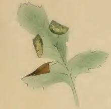 Stainton’s Natural History of the Tineina (1855–1873): Parornix anglicella a hawthorn leaf with a mine of a young larva and two cones formed by adult larvae